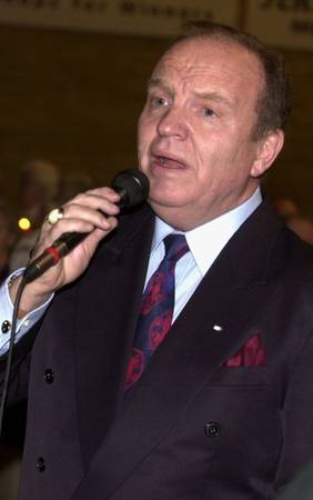 Tonny Landy (b.1937): Danish opera vocalist and actor.